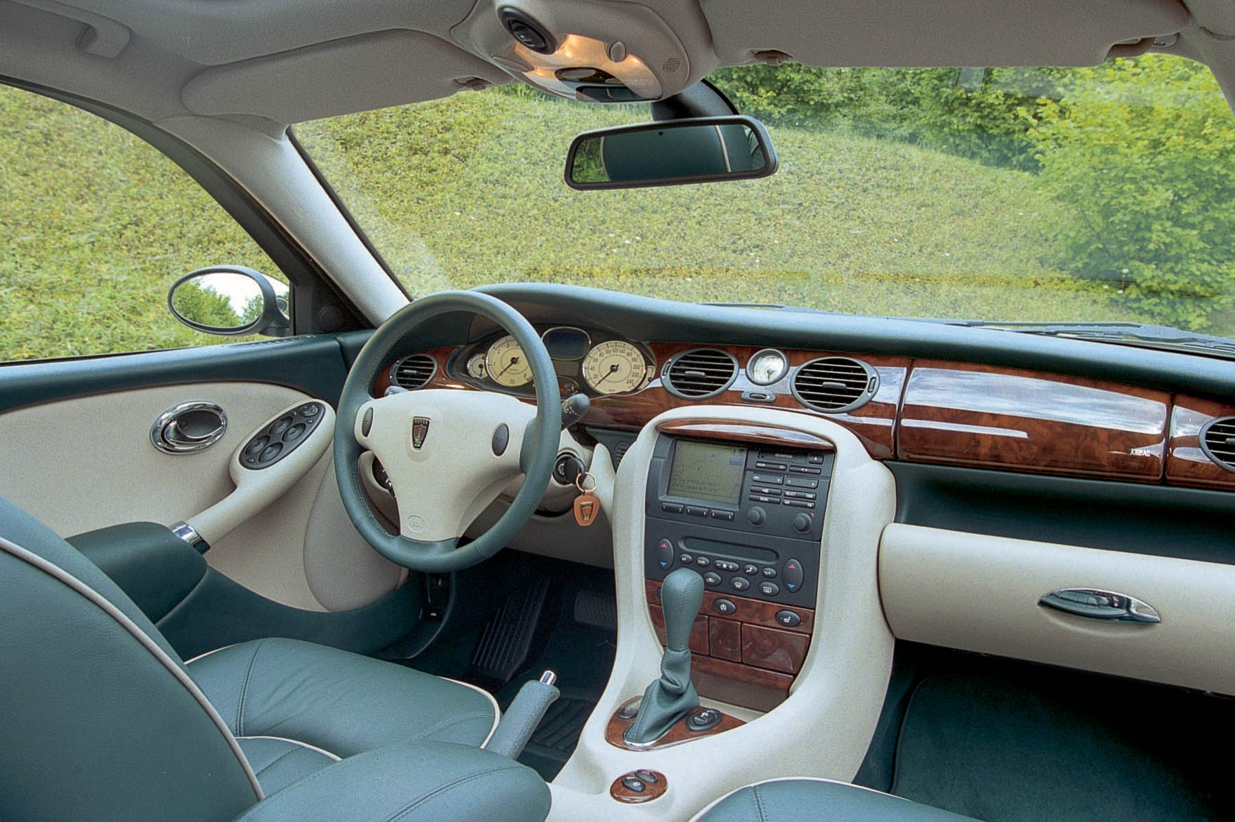 Dashboard